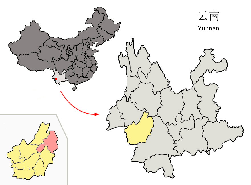 Location of Yun County (pink) and Lincang Prefecture (yellow) within Yunnan province of China Map drawn in september 2007 using various sources, mainly : Yunnan province administrative regions GIS data: 1:1M, County level, 1990 Yunnan Counties map from